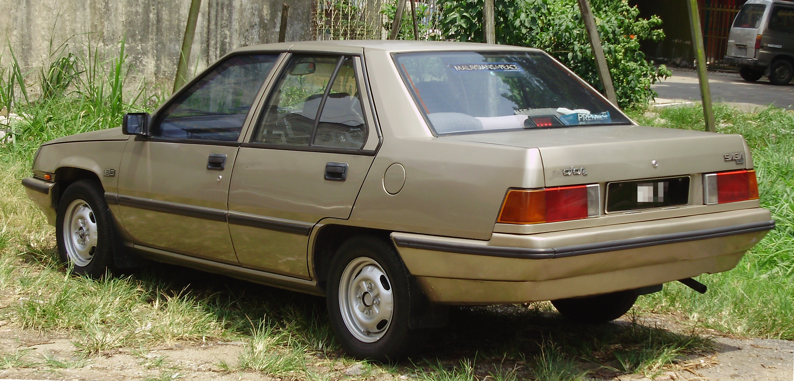 Rear quarter view of a first generation, first facelift Proton Saga saloon (manual) in Pudu, Kuala Lumpur, Malaysia.